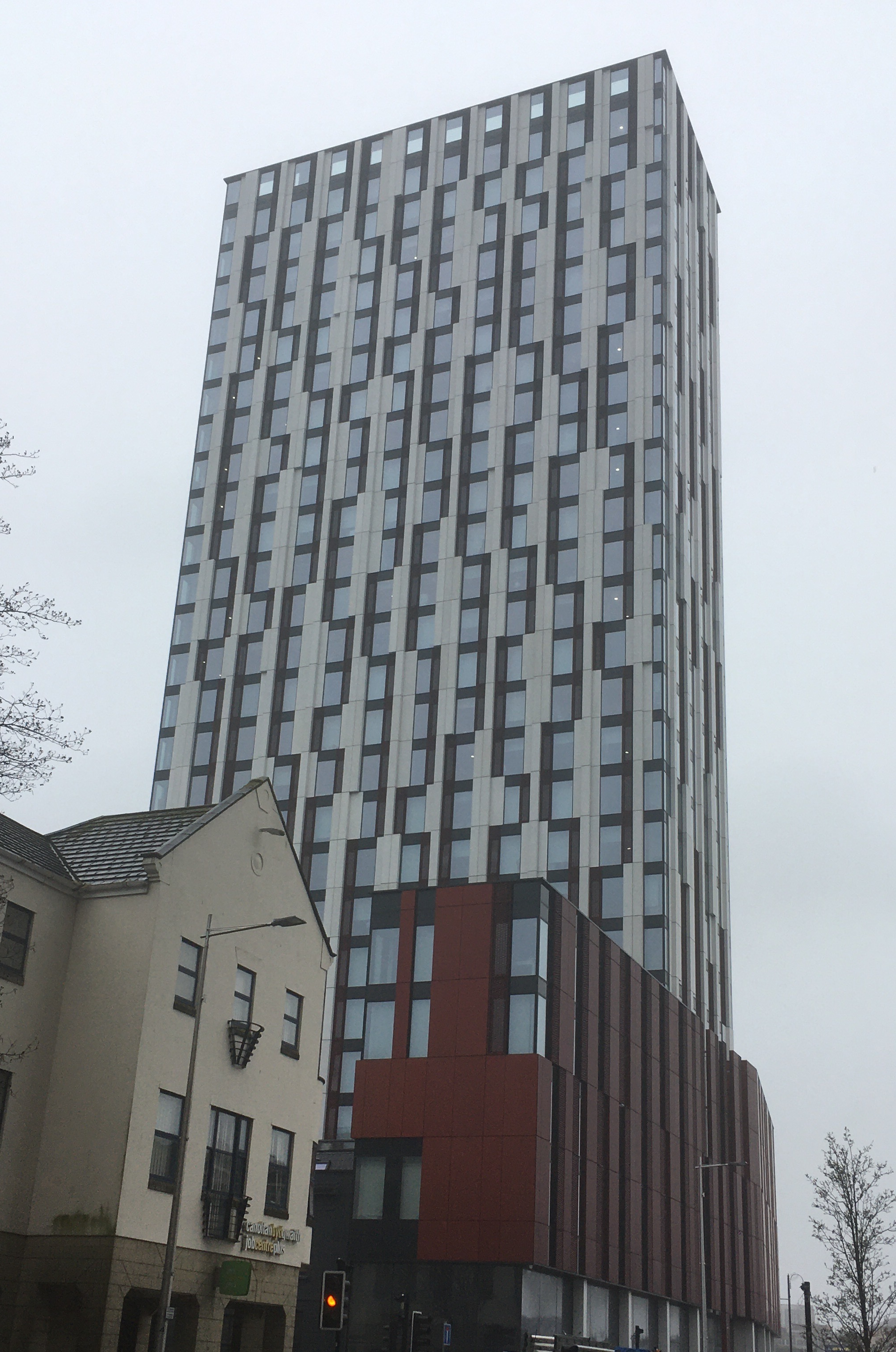 Bridge Street Exchange, Cardiff